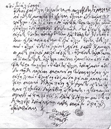 Official decree of Ali Pasha (1810), semi-independent Ottoman ruler of Ioannina, Greece, written in vernacular Greek.